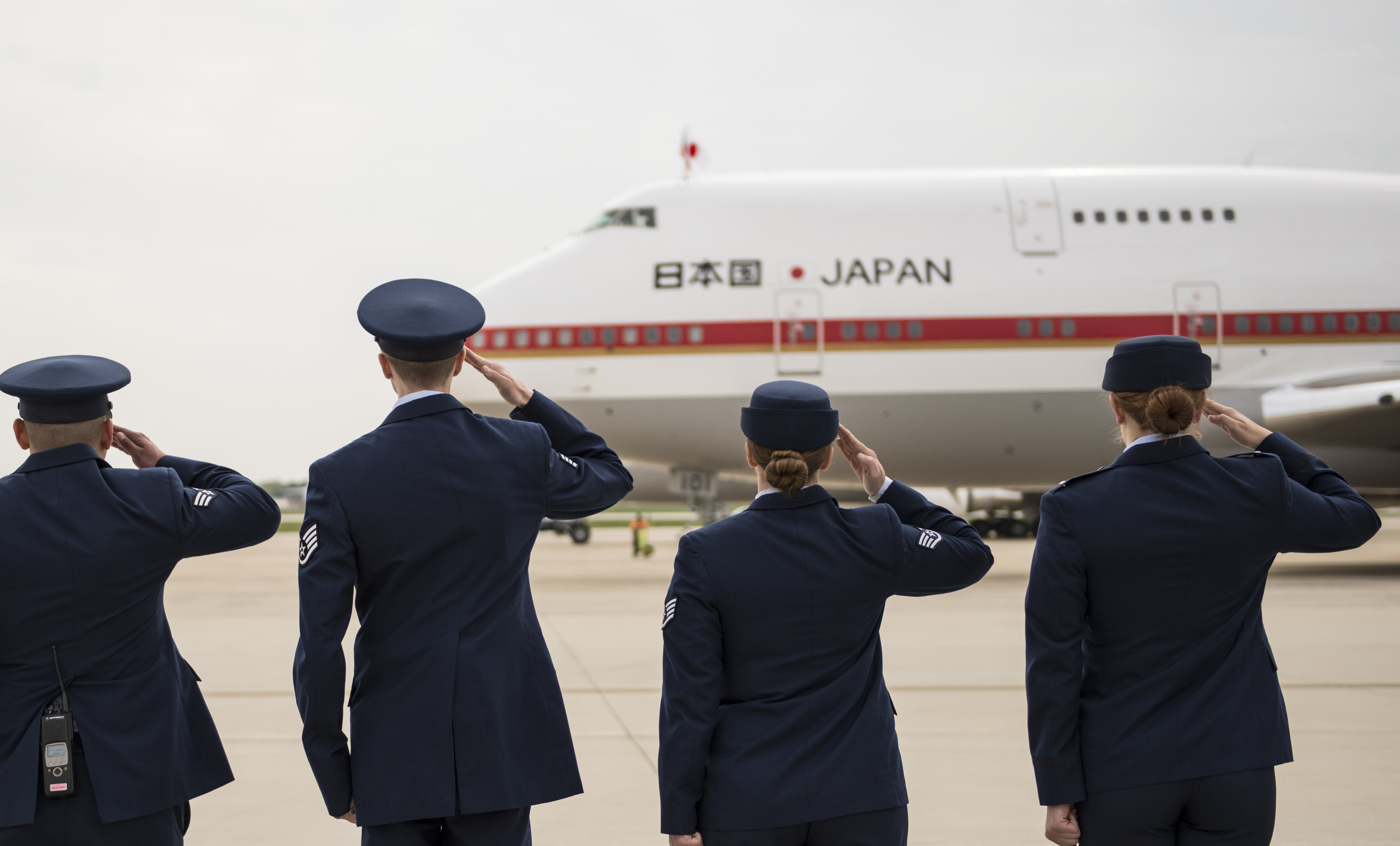 Airmen from the 89th Airlift Wing salute a farewell to Japanese Prime Minister Shinzō Abe and his wife, Akie Abe, at Joint Base Andrews, Md., April 30, 2015. Abe was in Washington for a multi-day trip and meetings with President Barack Obama. JBA served as his entry and exit location. (U.S. Air Force photo by Senior Master Sgt. Kevin Wallace/RELEASED)